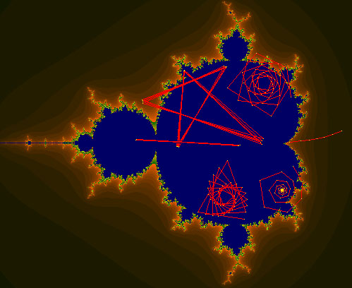 The sequence zn+1= zn2+c for 5 different values of c. Note that trajectories are on the dynamic planes and Mandelbrot set is on the parameter plane